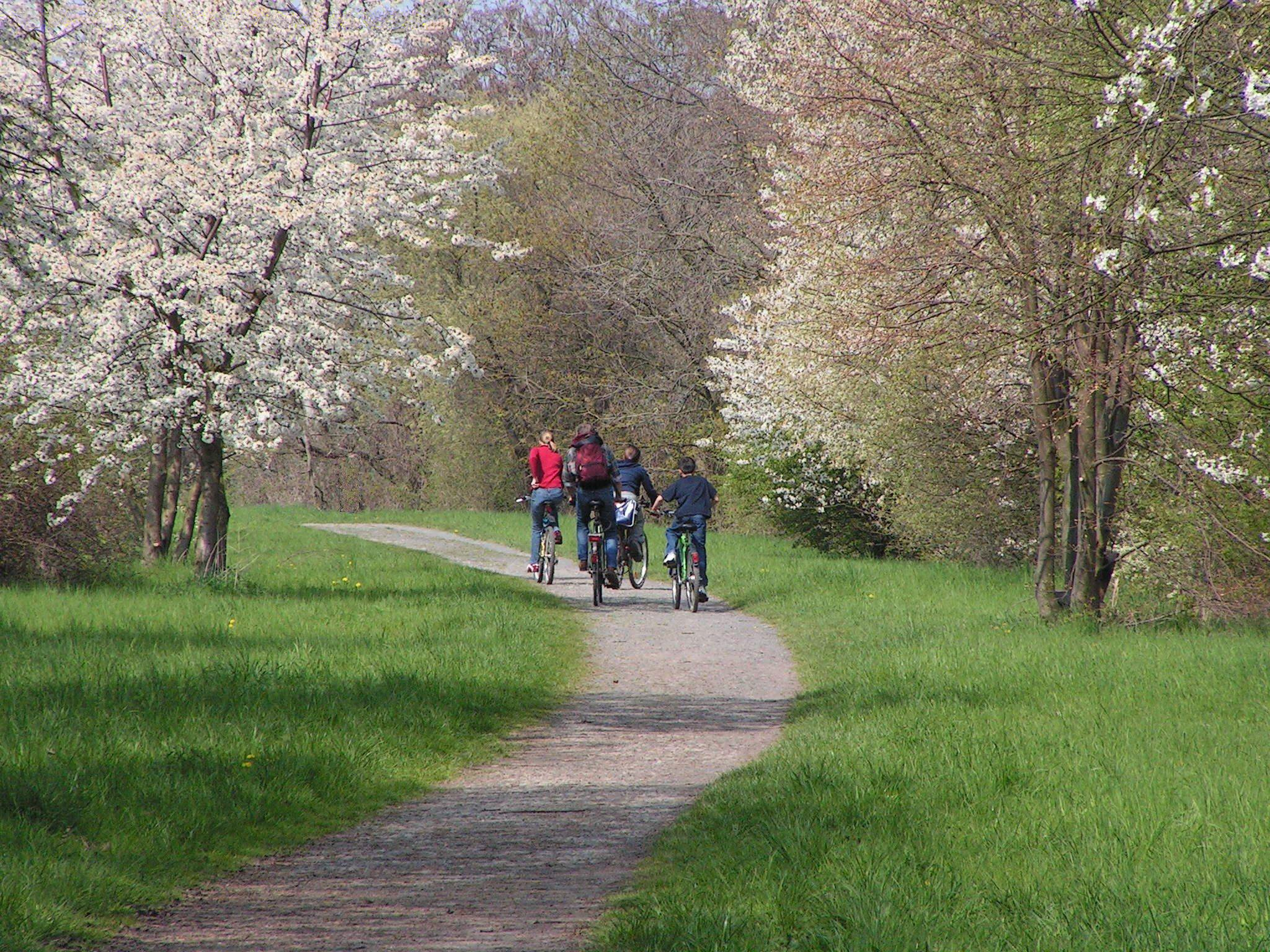 A group of cyclists on the former railway track between Göttingen and Hann. Münden, Germany, at the place of the old Groß Ellershausen Station. The track is now part of the Weser-Harz-Heide Cycle Route.